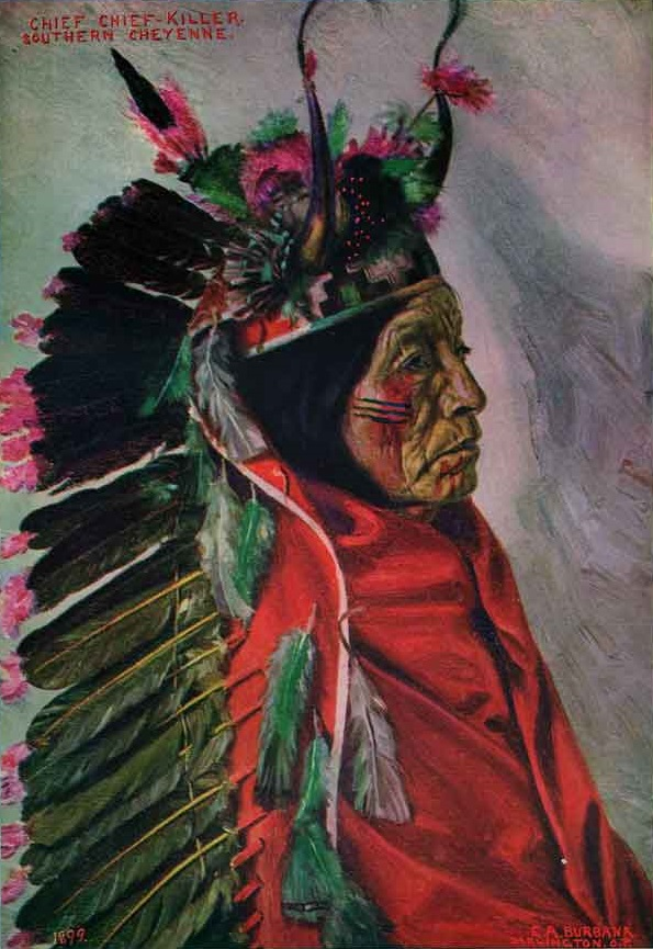 Painting of Southern Cheyenne chief Chief Killer by E.A Burbank, 1899.